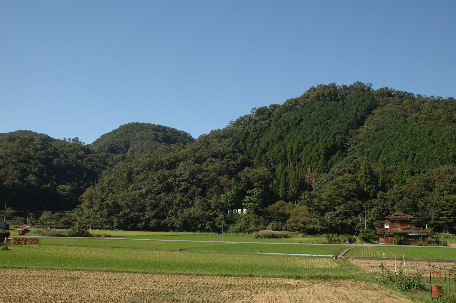 distant view of Kozuki castle